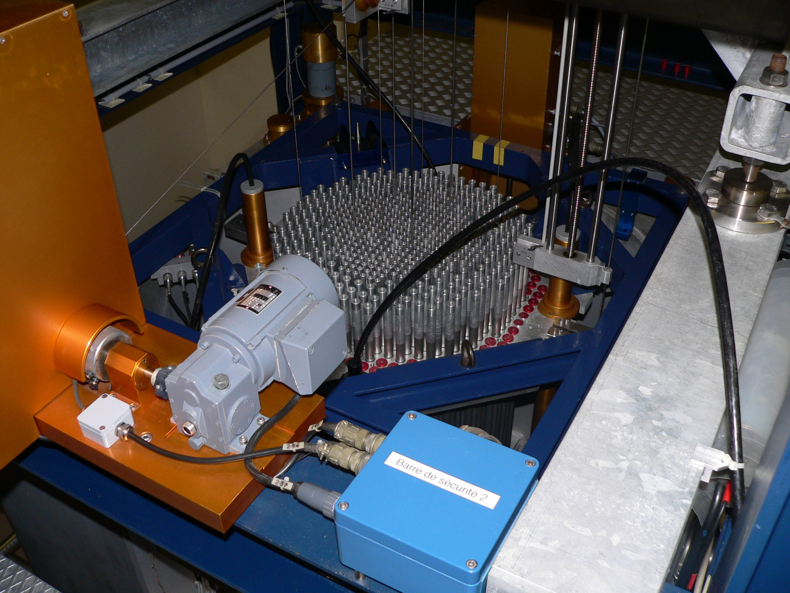 Nuclear installations at the EPFL CROCUS Reactor; CAROUSEL experiments; miscalenous experiments and manipulations; detectors and instruments. Core of the reactor. Note the strings and motors of the control rods (here engaged in the core), the water bassin (empty here) and the four expension vases which can evacuate the water from the bassin in less than a second (hence cutting off the reaction). Wholehearted thanks to René Frueh, chief of operations of CROCUS, for devoting a whole hours to open doors of this universe and explain technical details.